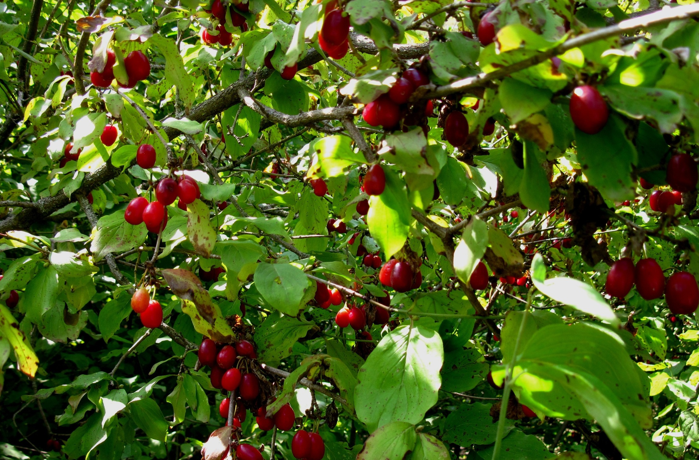 For Kaleybar wikipage.